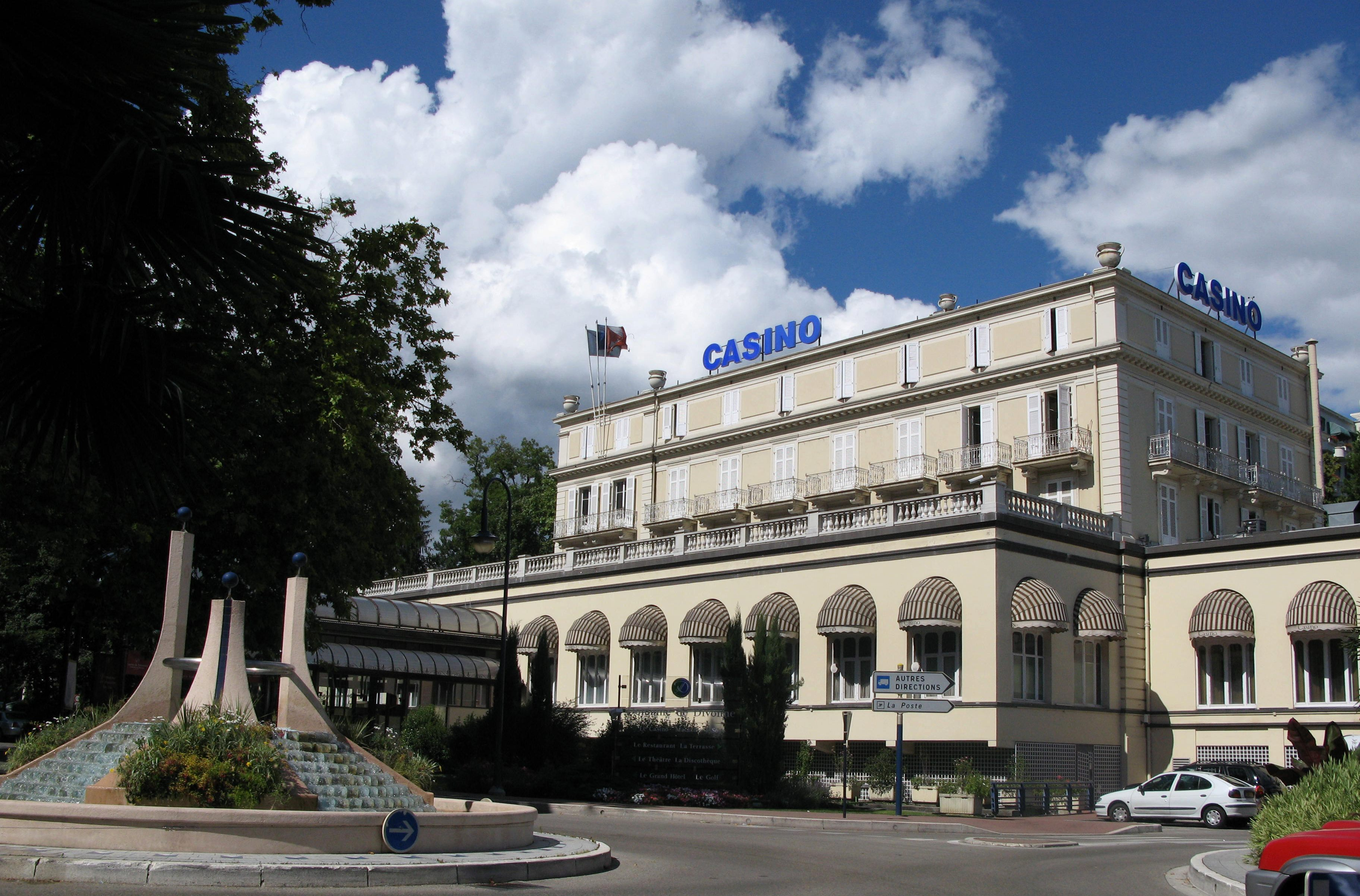 Casino of Divonne-les-Bains